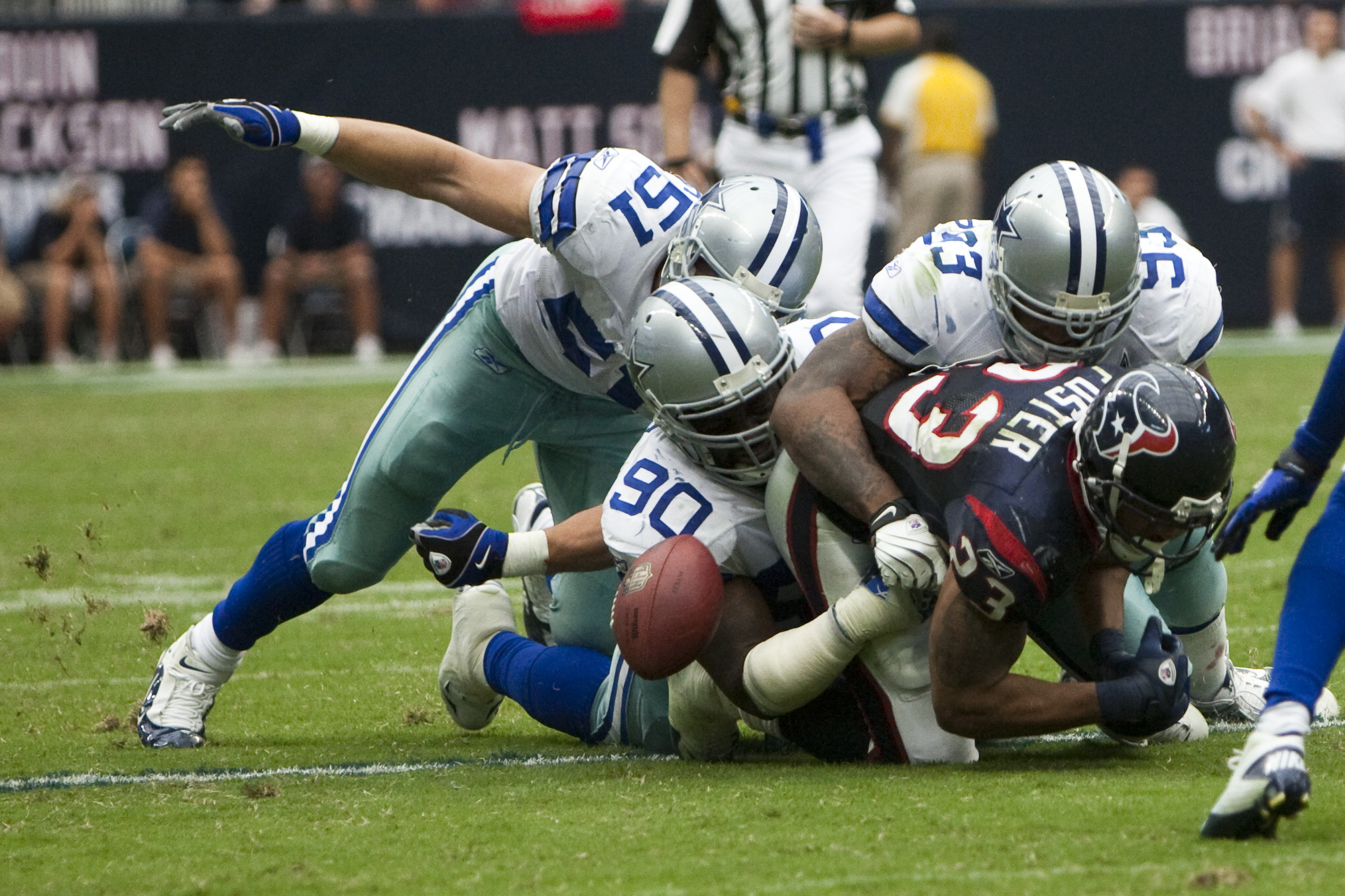 Houston Texans' Arian Foster fumbles while being tackled by Dallas Cowboys' Keith Brooking, Jay Ratliff and Anthony Spencer. Reliant Stadium. Houston, Tx. Sept. 26 2010.